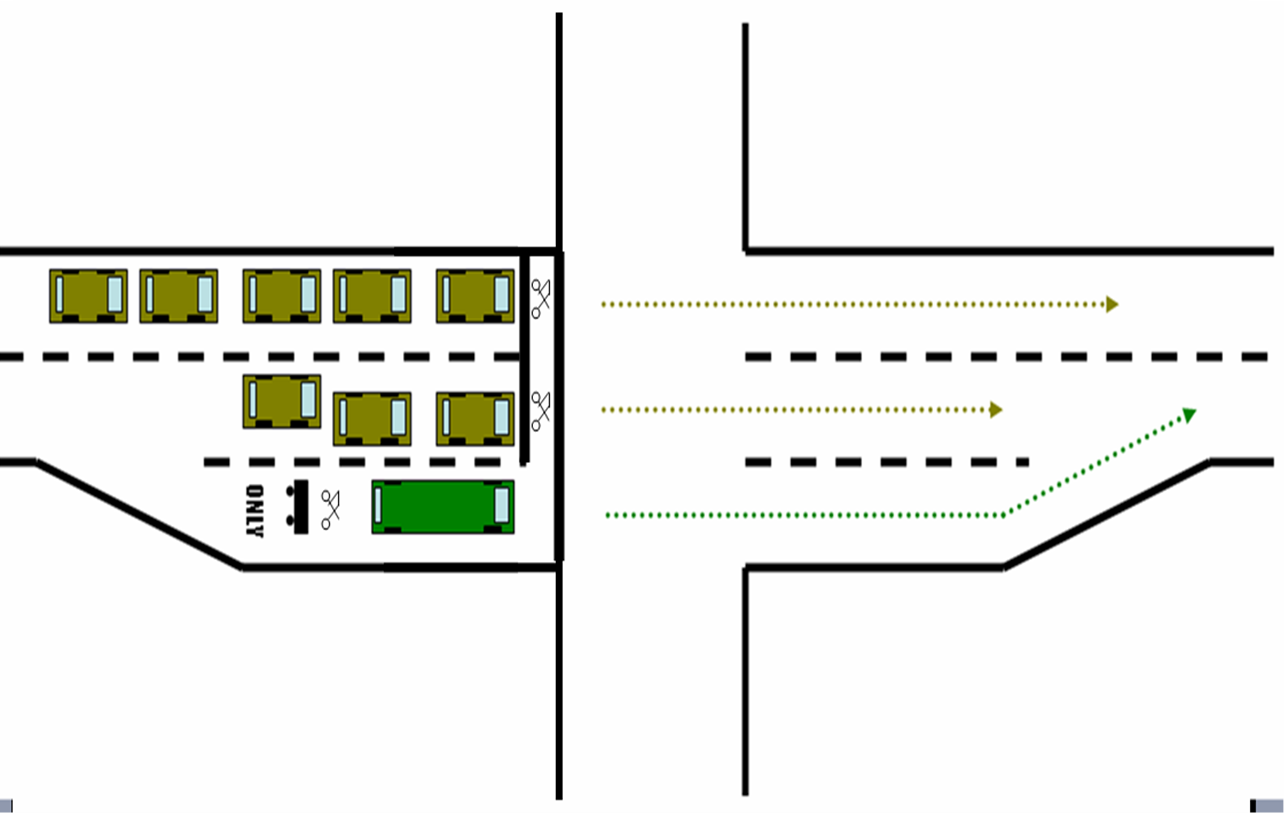 Example of a queue jump continued through an intersection with provision for bicyclists.